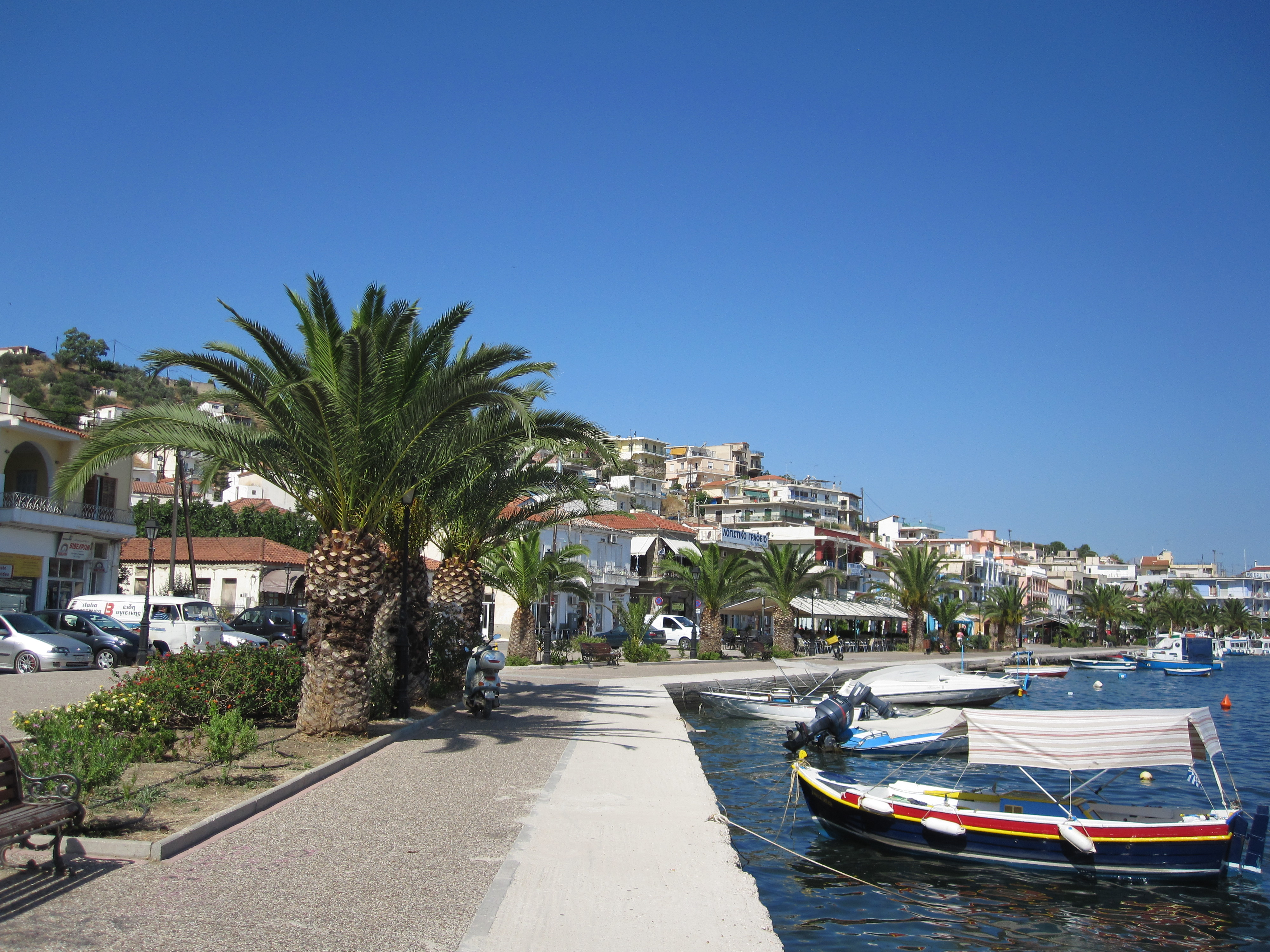 Galatas in Troizinia, Greece